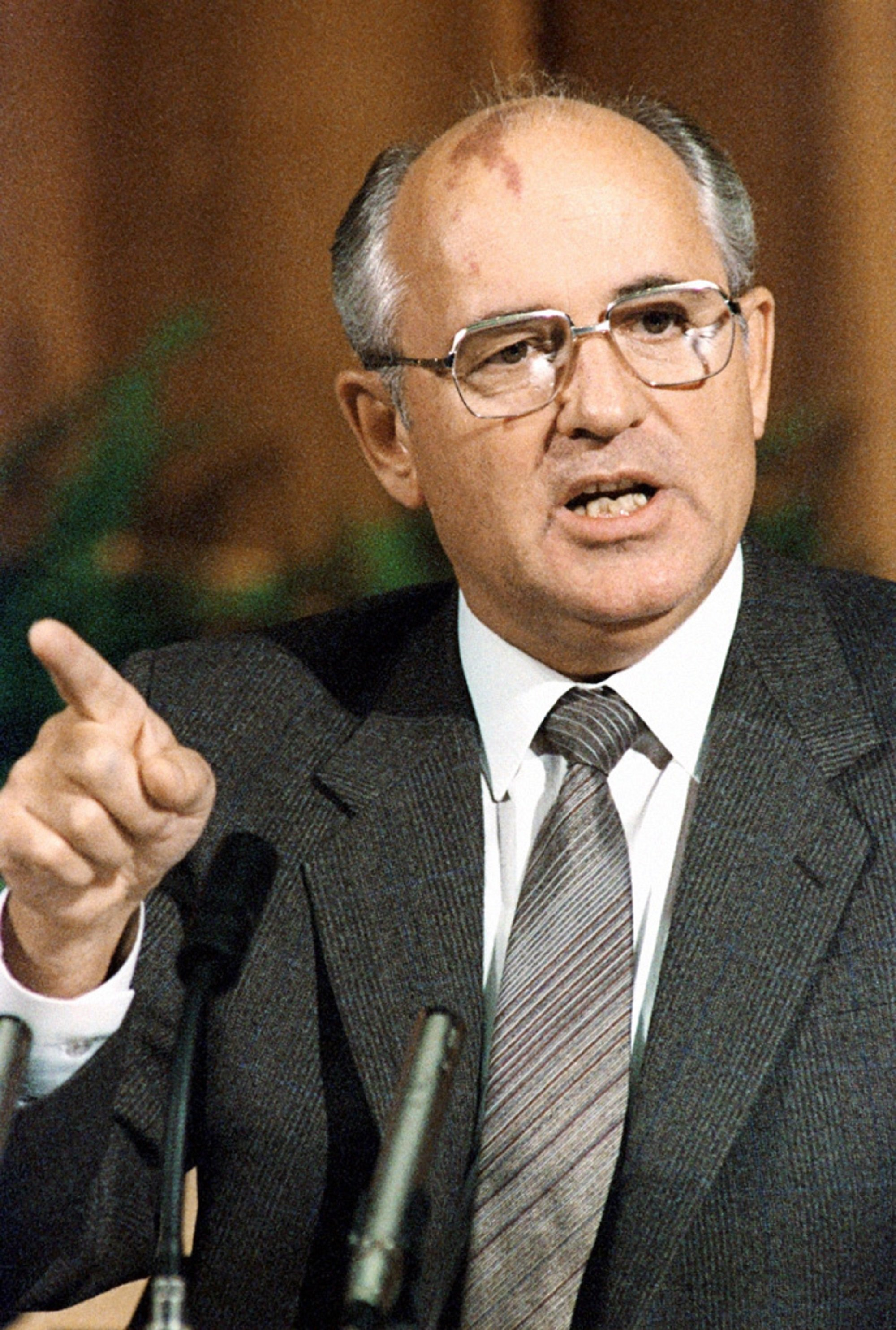 “Mikhail Gorbachev”. General Secretary of the CPSU Central Committee Mikhail Gorbachev speaking at a news conference after a Soviet-American summit in Reykjavik, Iceland, in 1986.